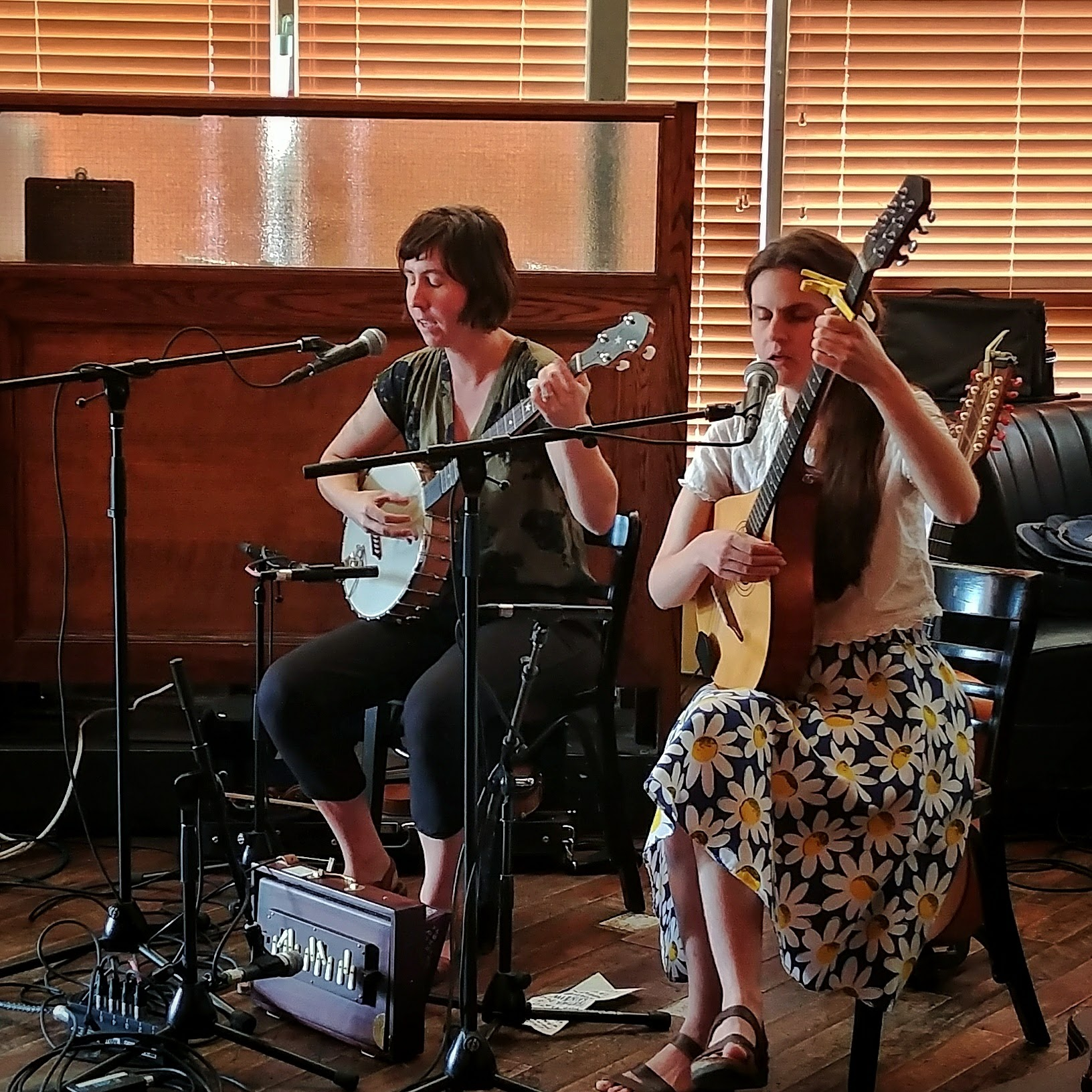 Sally Anne Morgan playing the banjo and Sarah Louise Henson playing guitar together